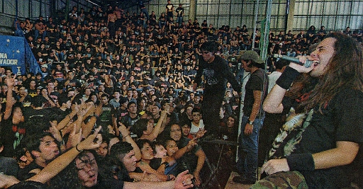 Dreamlore playing live at El Salvador Metal Fest XVIII